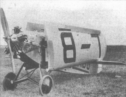 Aircraft Avia BH-11 disassembled. Contest "Challenge International de Tourisme 1929".